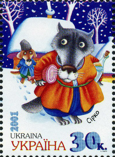 Stamps of Ukraine, 2001